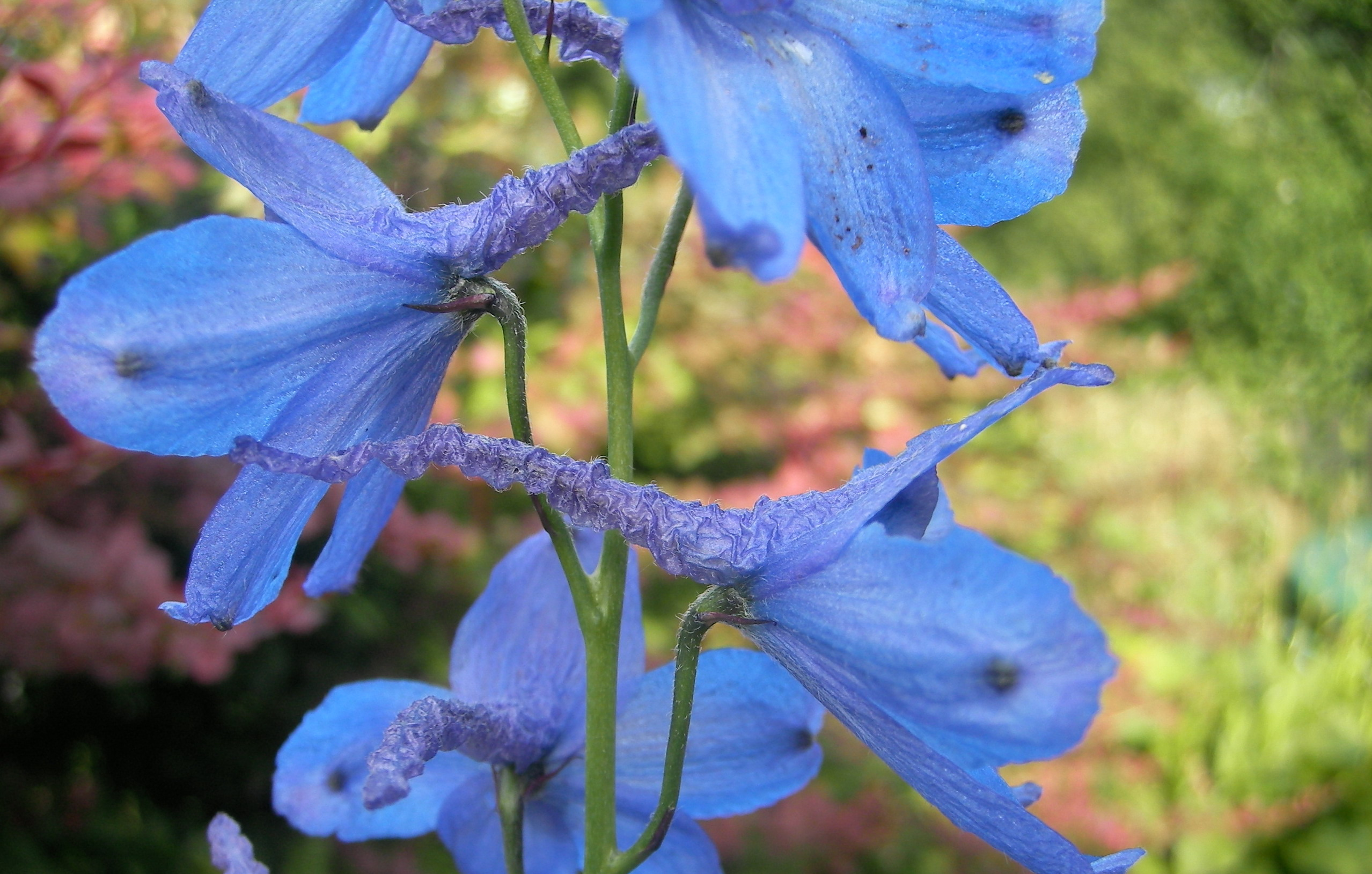 Delphinium elatum